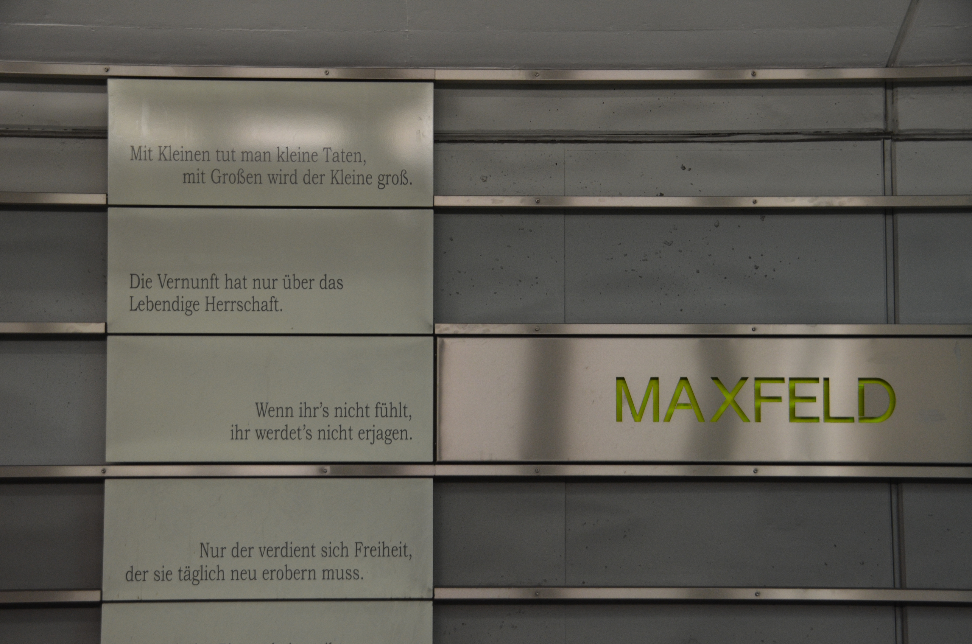 Nürnberg, U-Bahnstation Maxfeld, 10. Wikipedia-Fotoworkshop